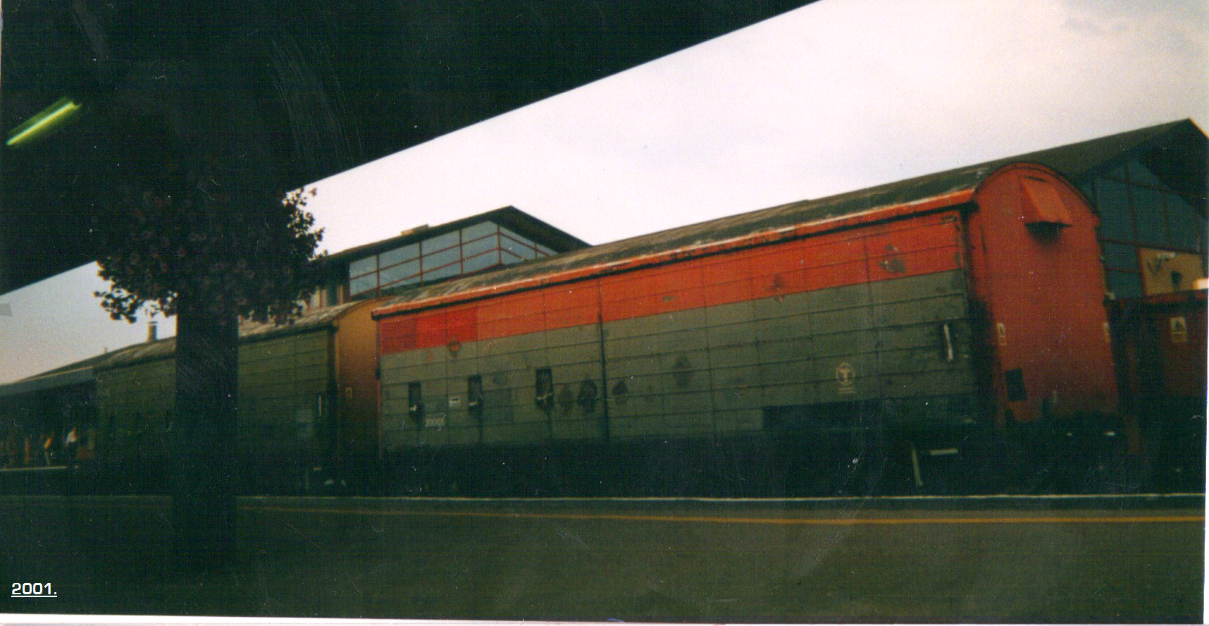 I took the picture of this aging General Utility Van (GUV) freight box car my self at Oxford station in the year 2001. I here by release it in to the public domain.